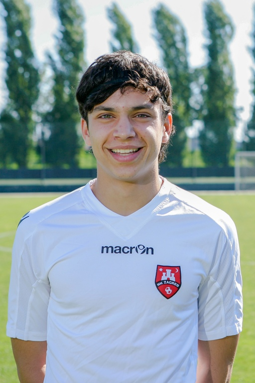 Photo of a football player.